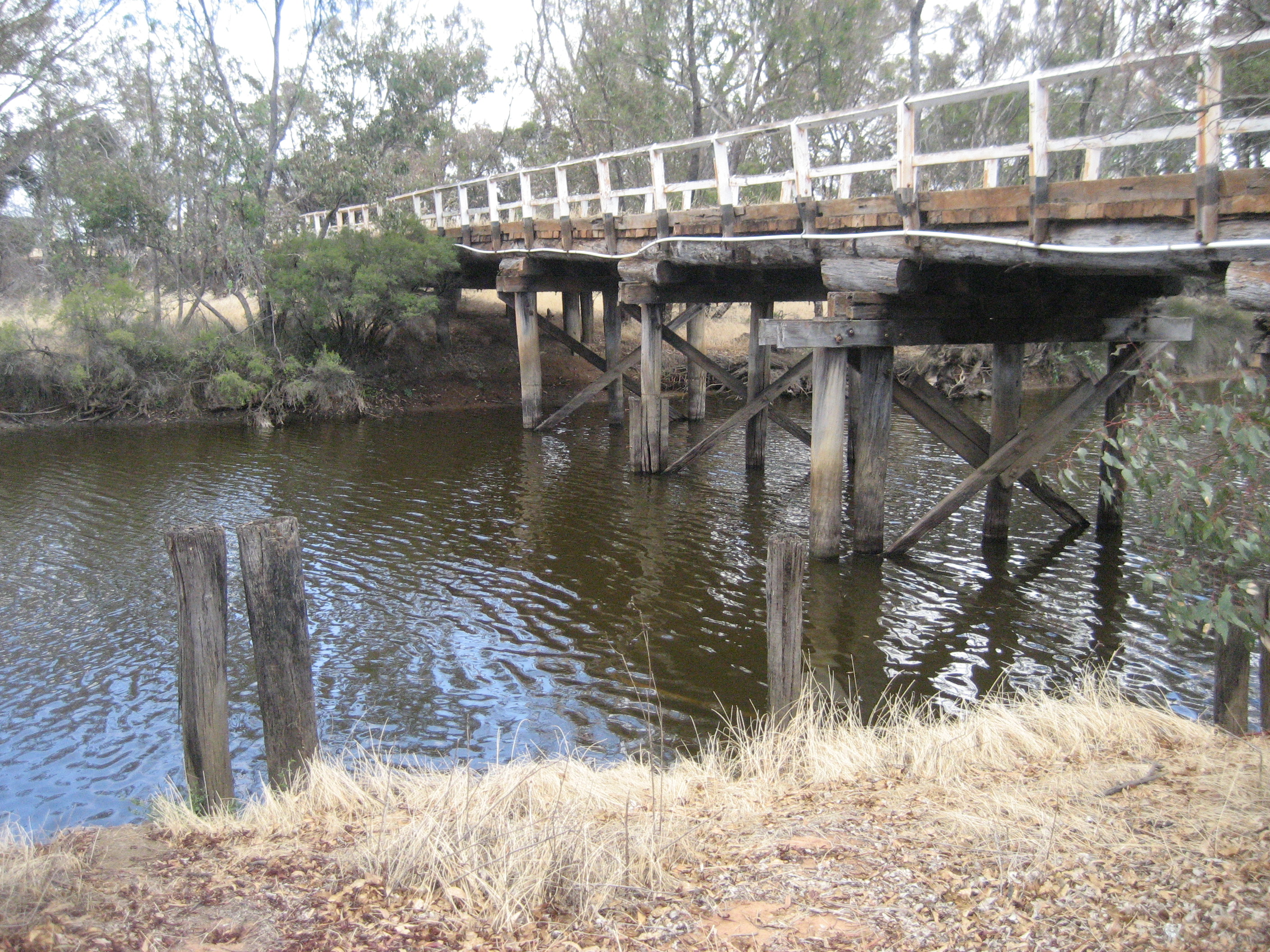 Hotham River in Western Australia at Pumphrey's Bridge. Midway between Narrogin and Wandering